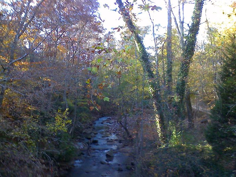 Willeo Creek, looking north from the bridge that joins Jones Road (right) to Childers Road (left), in Fulton and Cobb counties, respectively. The east/right/Fulton side is also in the city limit of Roswell, Georgia, in northern metro Atlanta in the United States.